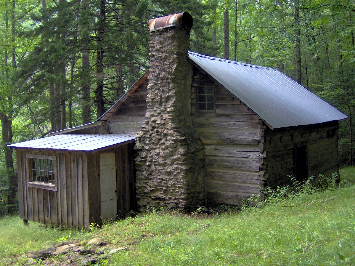 The Avent Cabin, constructed ca. 1850. The cabin is located along Jakes Creek, a mile or so above Elkmont, Tennessee in the Great Smoky Mountains National Park. An unmarked spur trail leads to the cabin from the Jakes Creek Trail. Artist Mayna Avent used the cabin as a studio from 1919-1939. Image by Brian Stansberry.